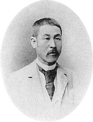 C. Ishikawa, Professor of Zoology, Wntomology & Sericulture.